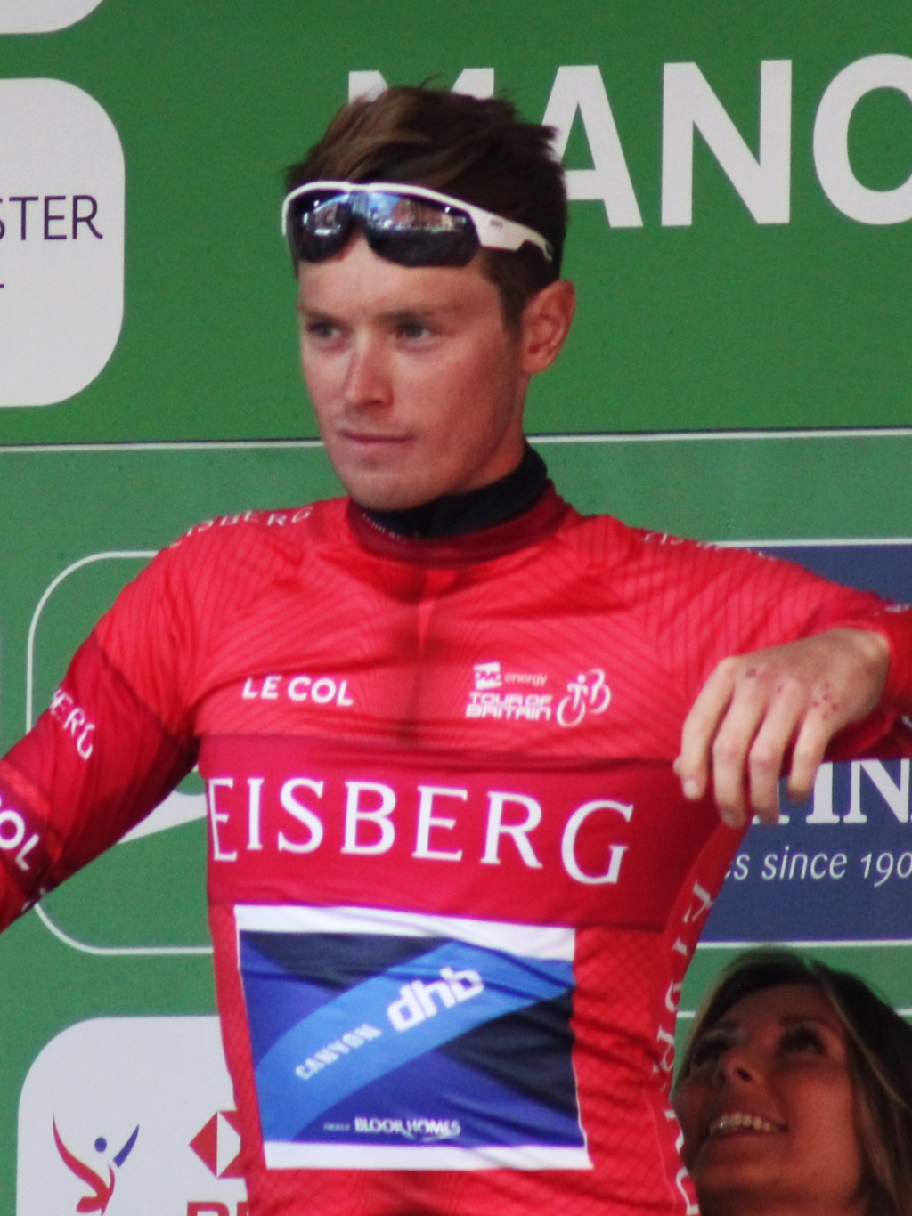 Rory Townsend, winner of the Eisberg Sprints competition at the 2019 Tour of Britain cycle race.